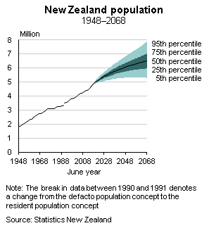 New Zealand national population projection from 1948 to 2068 using 2016 as the base year. Data before 2016 is historical estimates, beyond 2016 is projections with confidence intervals.